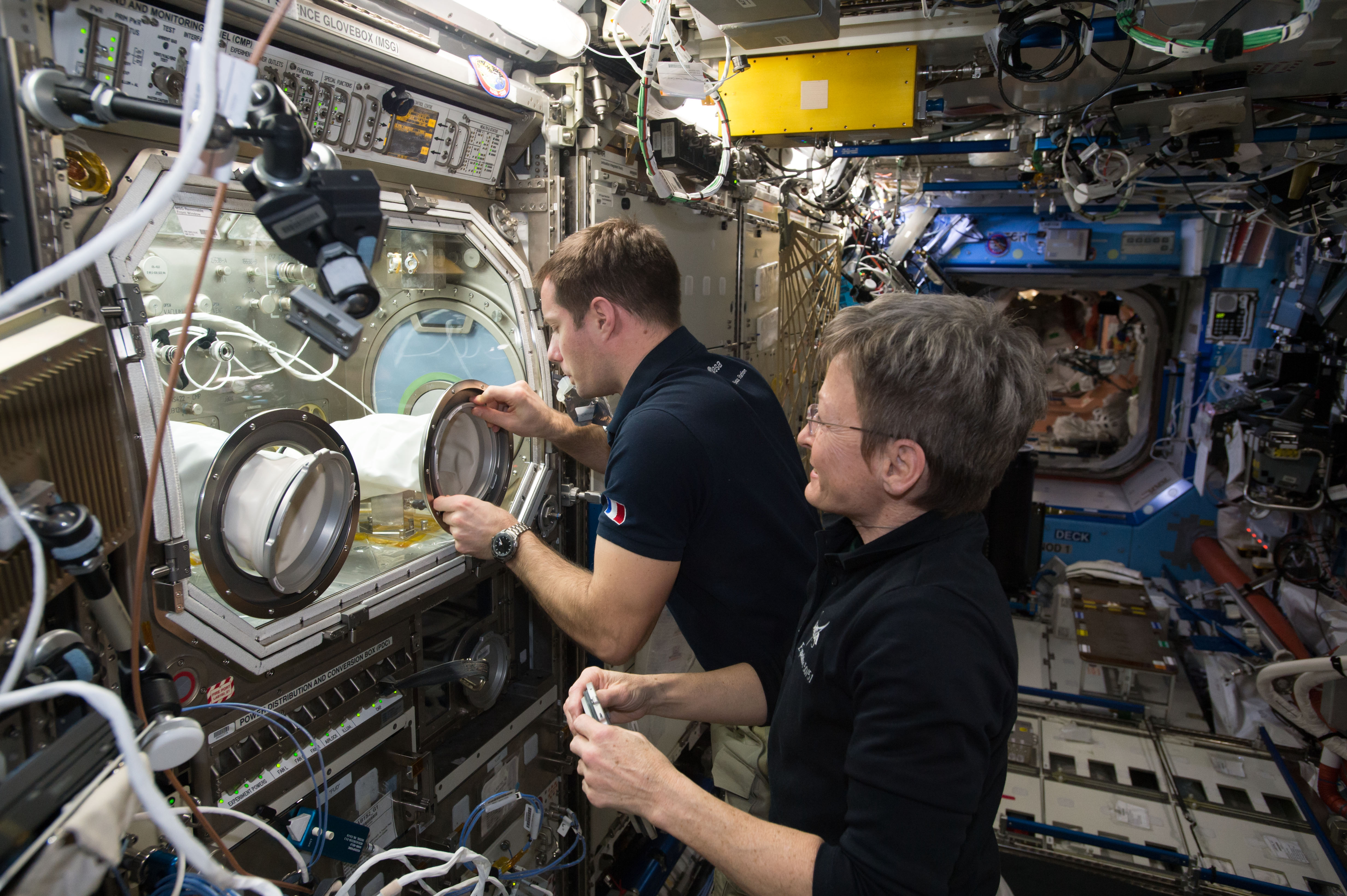 NASA astronaut Peggy Whitson (right) and ESA (European Space Agency) astronaut Thomas Pesquet setup the Microgravity Science Glovebox (MSG) for the Microgravity Expanded Stem Cells (MESC) experiment. MESC cultivates human stem cells aboard the International Space Station for use in clinical trials to evaluate their use in treating disease. Results also advance future studies on how to scale up expansion of stem cells for treating stroke and other conditions.